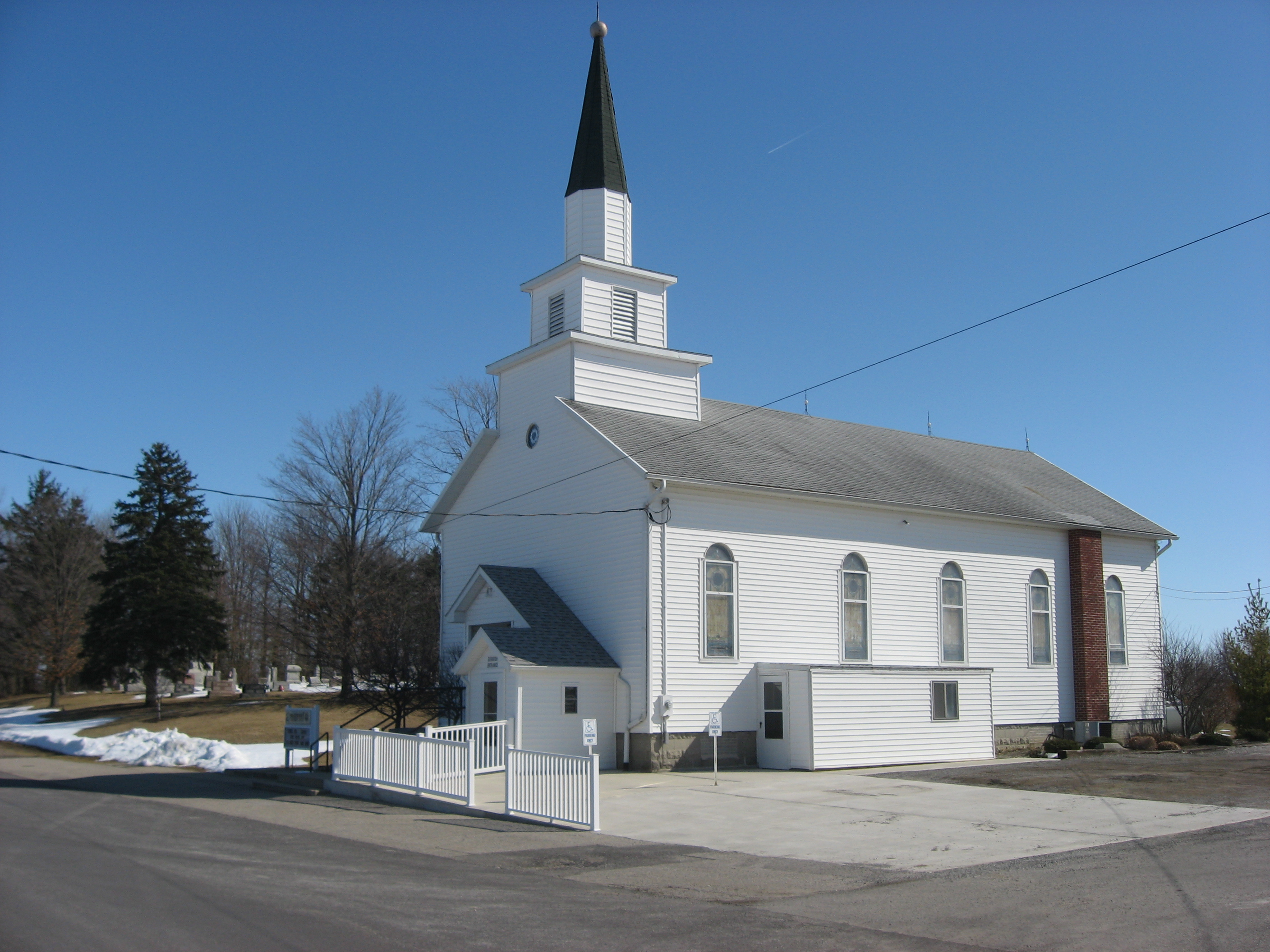 Front and western side of the Emanuel Lutheran Church of Montra, located along Montra Road just west of the center of the community of Montra in Jackson Township, Shelby County, Ohio, United States. Built in 1873, it is listed on the National Register of Historic Places.